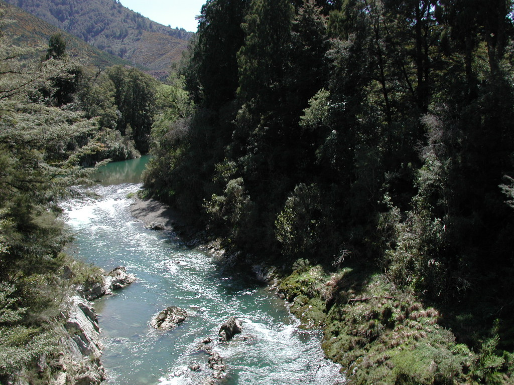 Rai River from swing bridge in Pelorus Bridge Scenic Reserve